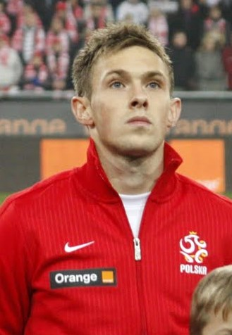 Polish football player Maciej Rybus